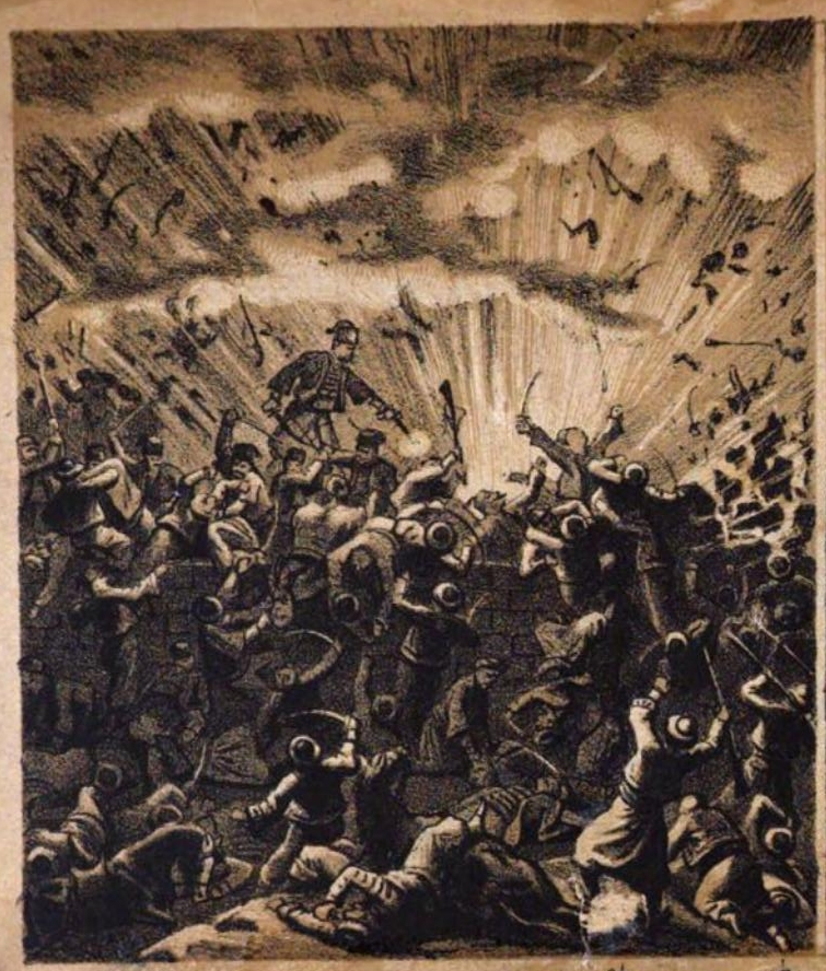 Stevan Sinđelić blowing up the powder kegs in the Battle of Čegar (1809)